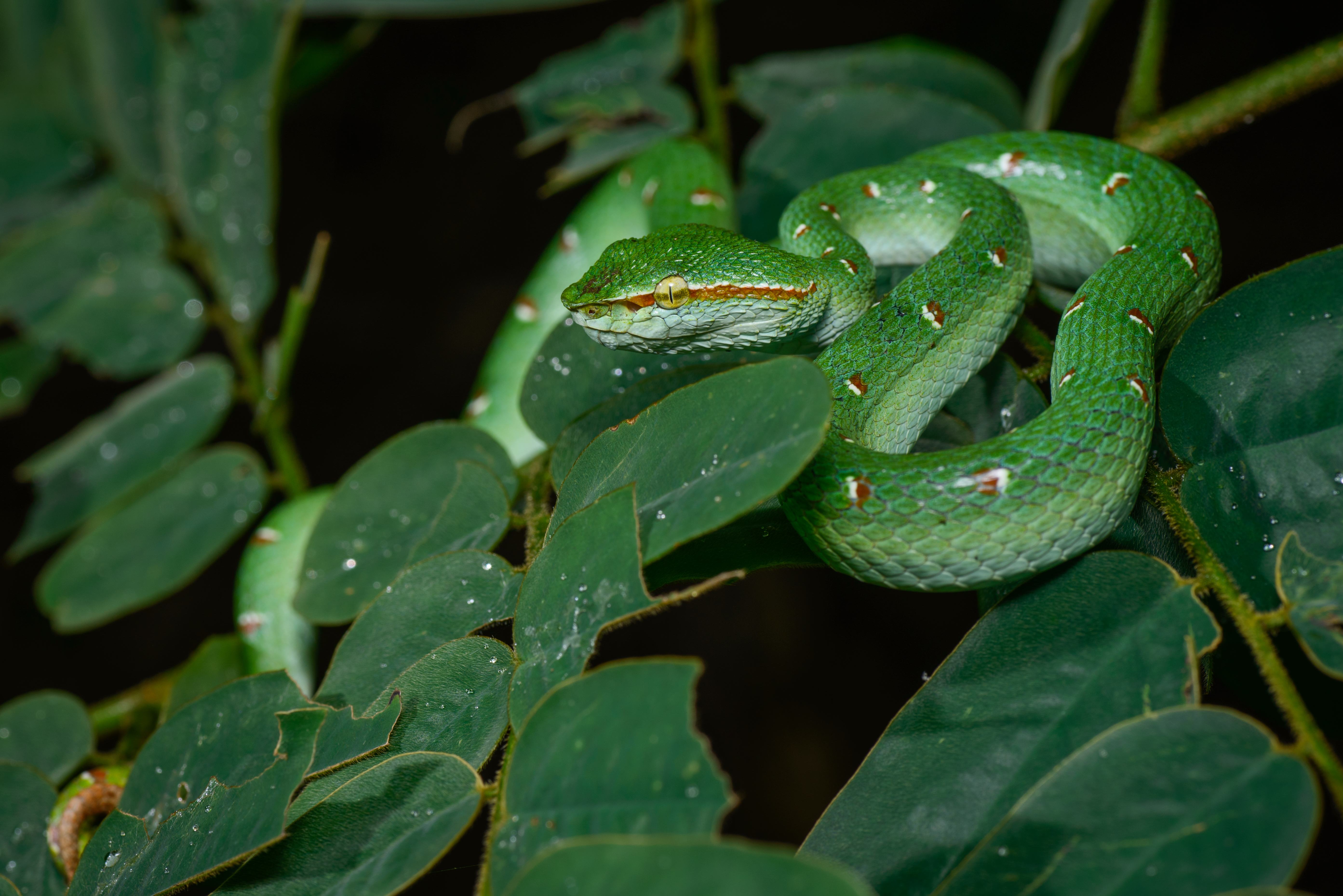 This photo is published under Creative Commons Attribution-Share-Alike Licence, means you are free to use this photo with attribution under same licence. For credits, please use following; Owner: Thai National Parks Link